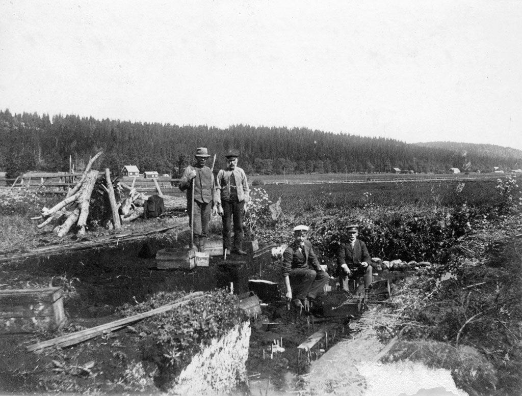 Alvastra pile-dwelling from about 3000 BC. Photograph from the excavations in 1908-1919 of the Stone Age settlement.